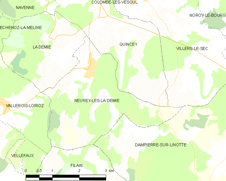 Map of French municipality